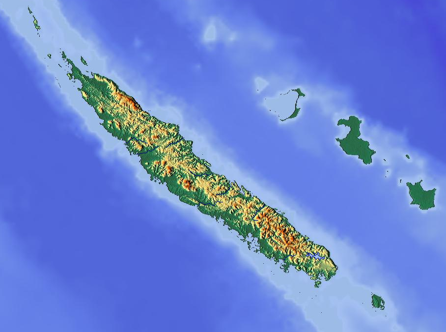 Map of New Caledonia Geographic limits of the map: N: -19.461° S: -22.923° W: 163.25° E: 168.24°